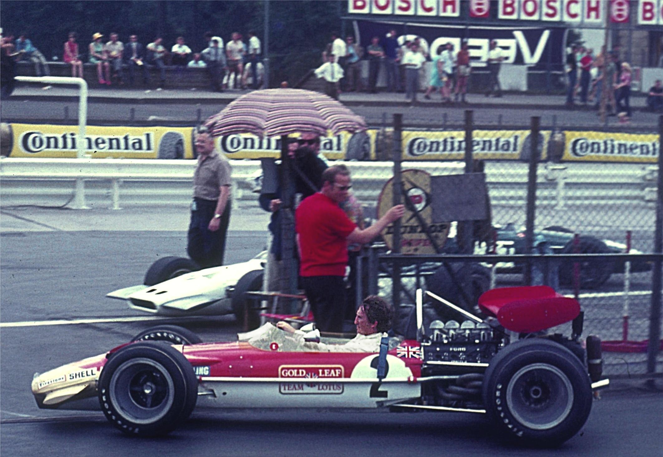 Jochen Rindt at entrance to the drivers' paddock of Nürburgring coming from the back straight after practice for German Grand Prix.